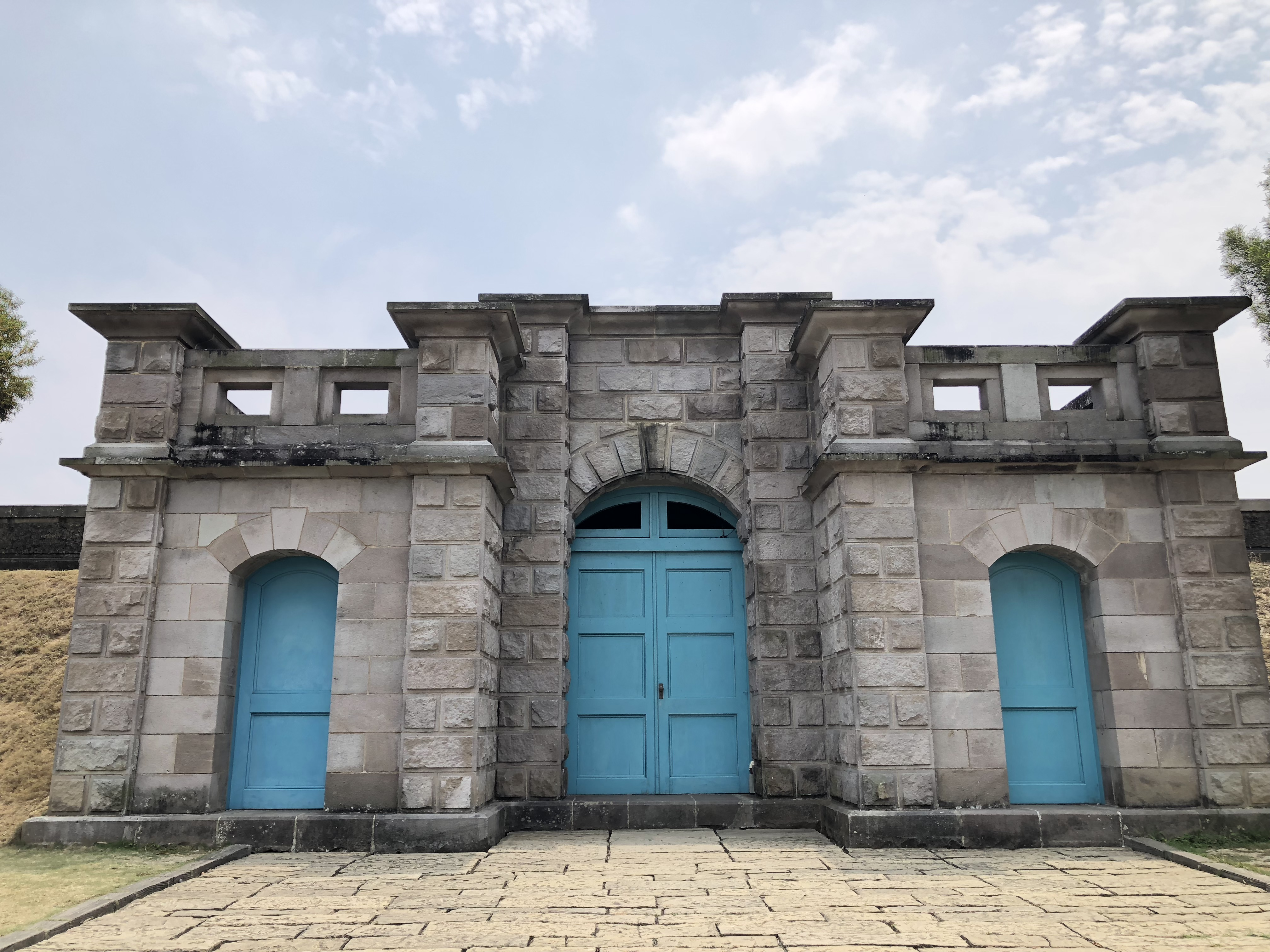 原台南水道